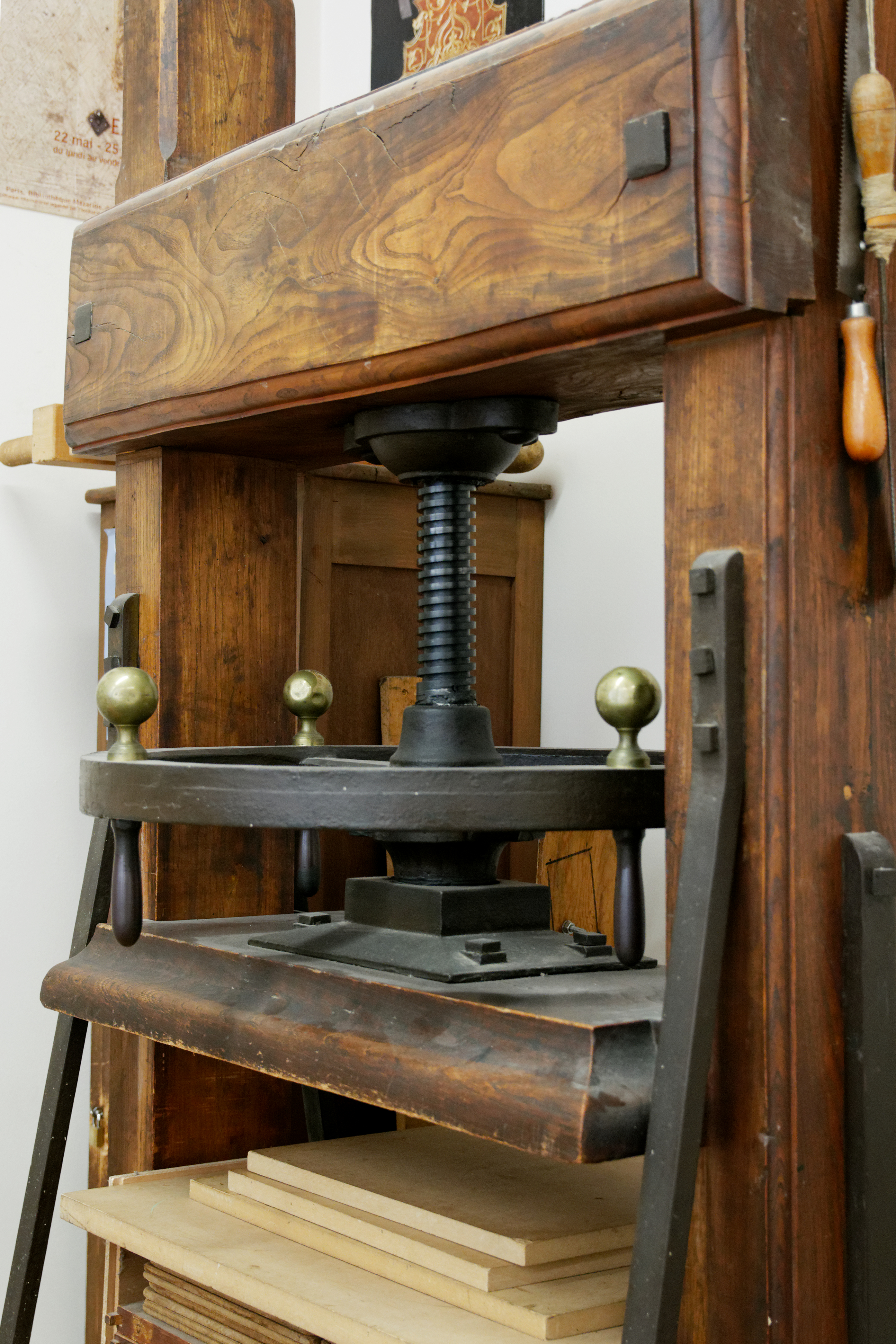 Bookbinding press. Bookbinding room, Bibliothèque Sainte-Geneviève, Paris.